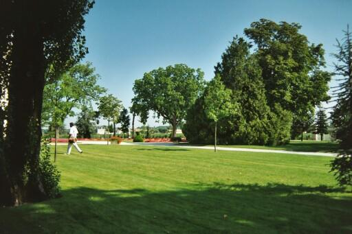 Château Maucaillou, photographed in 2002, GNU licence